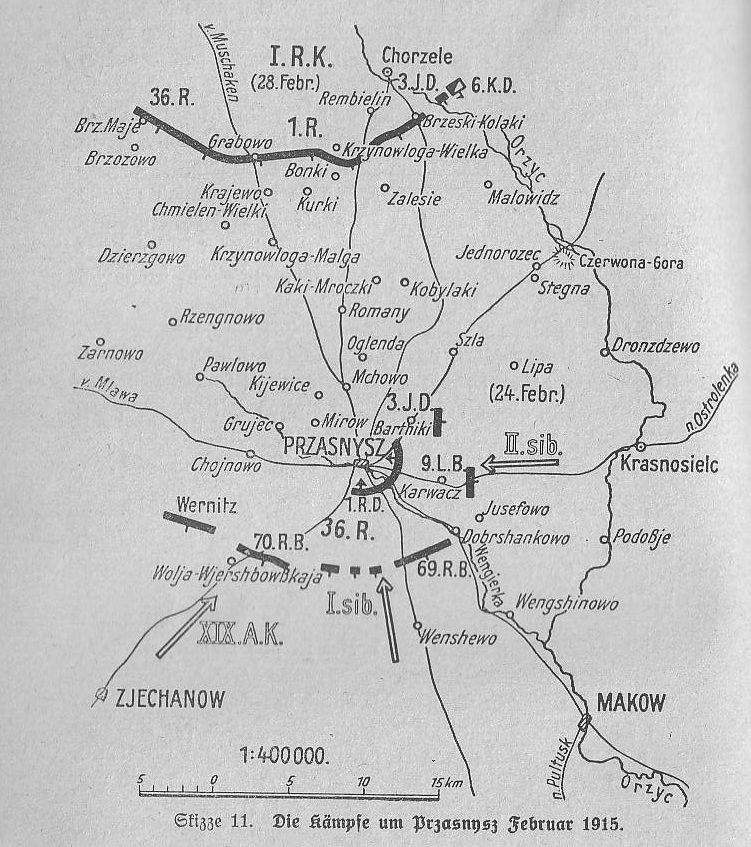 Battles of Przasnysz in 1915